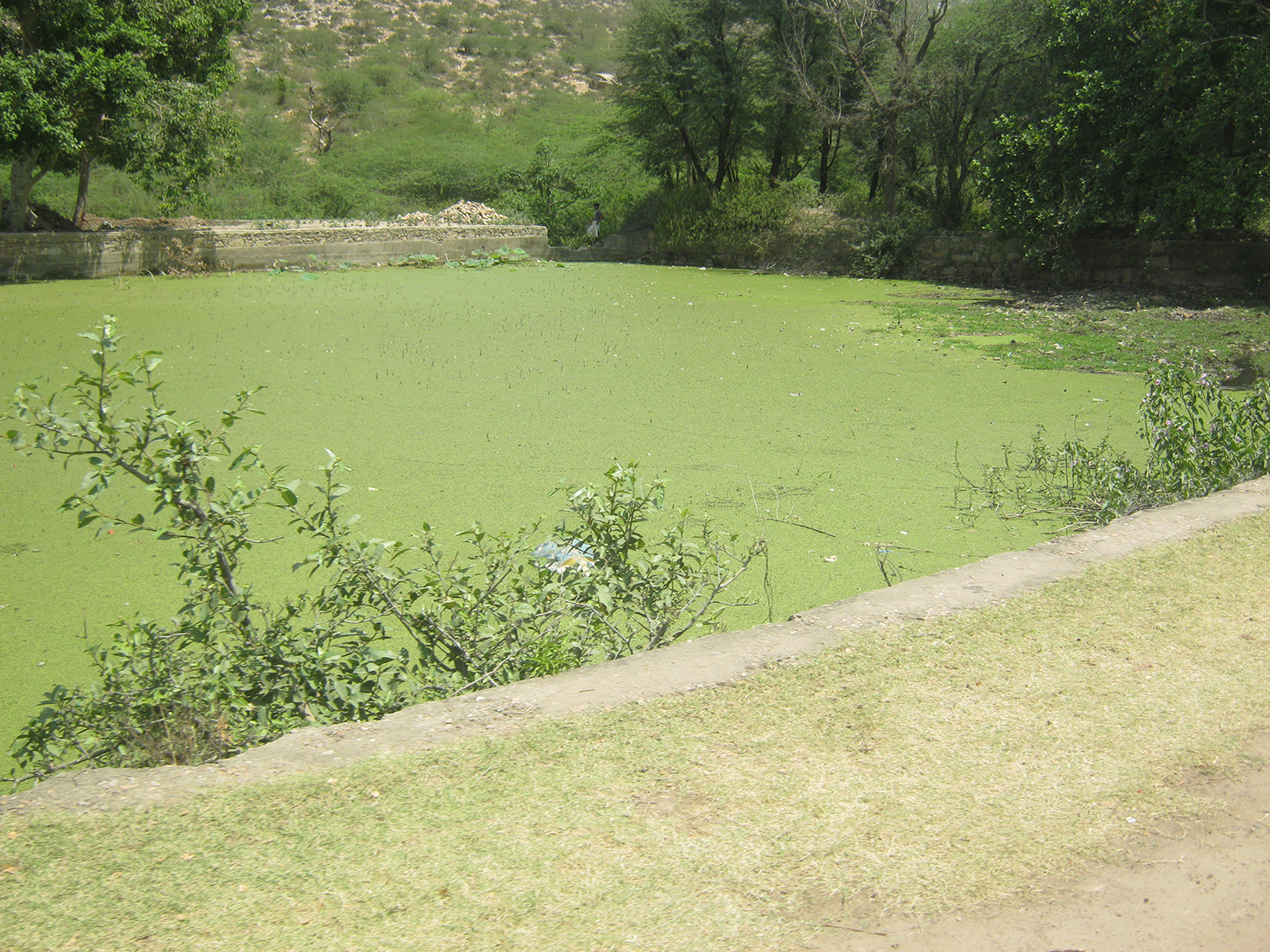 The Lotus Temple in the campus of Jhajhirampura Shrine